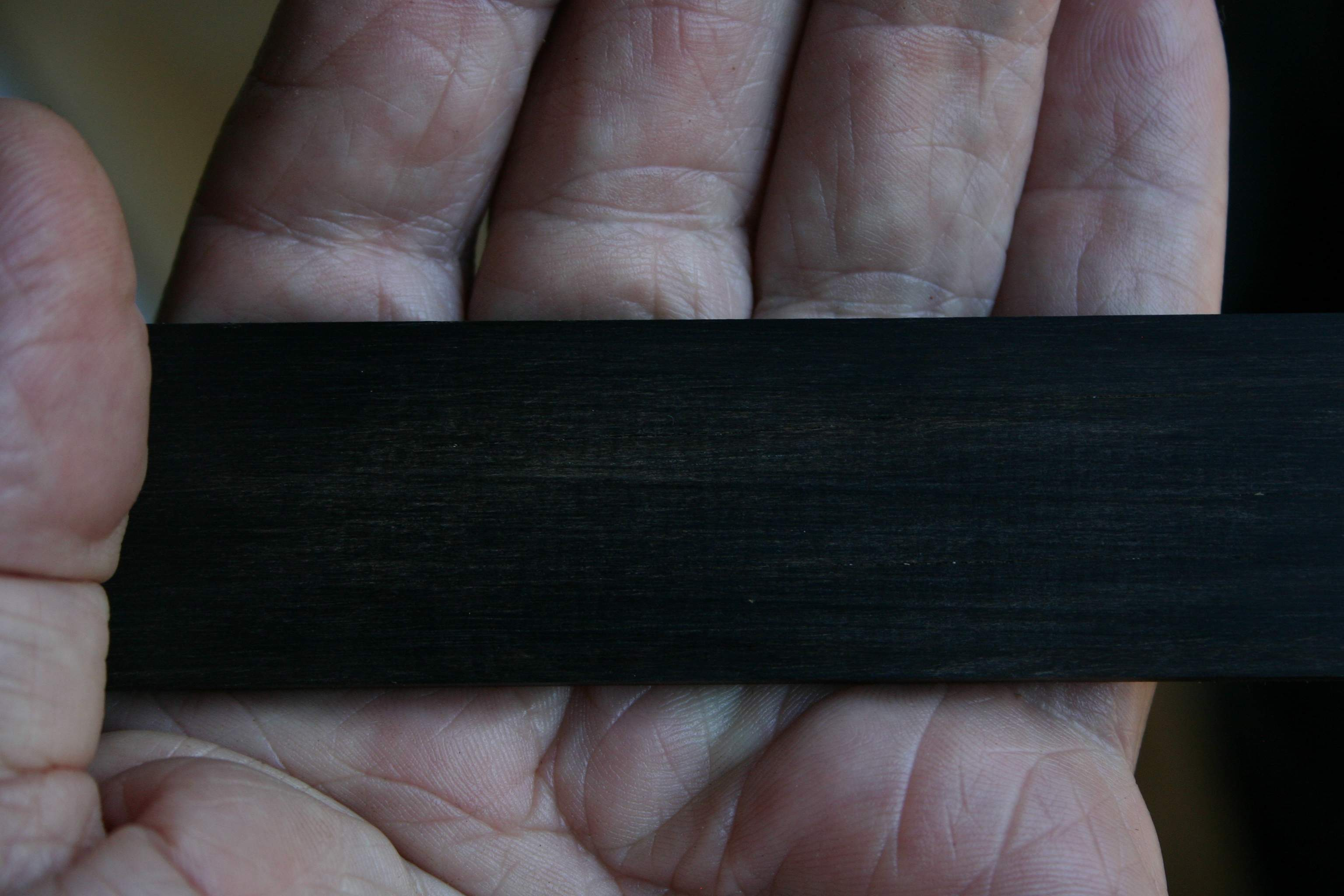 Strip of Diospyros crassiflora showing colour contrast with human hand